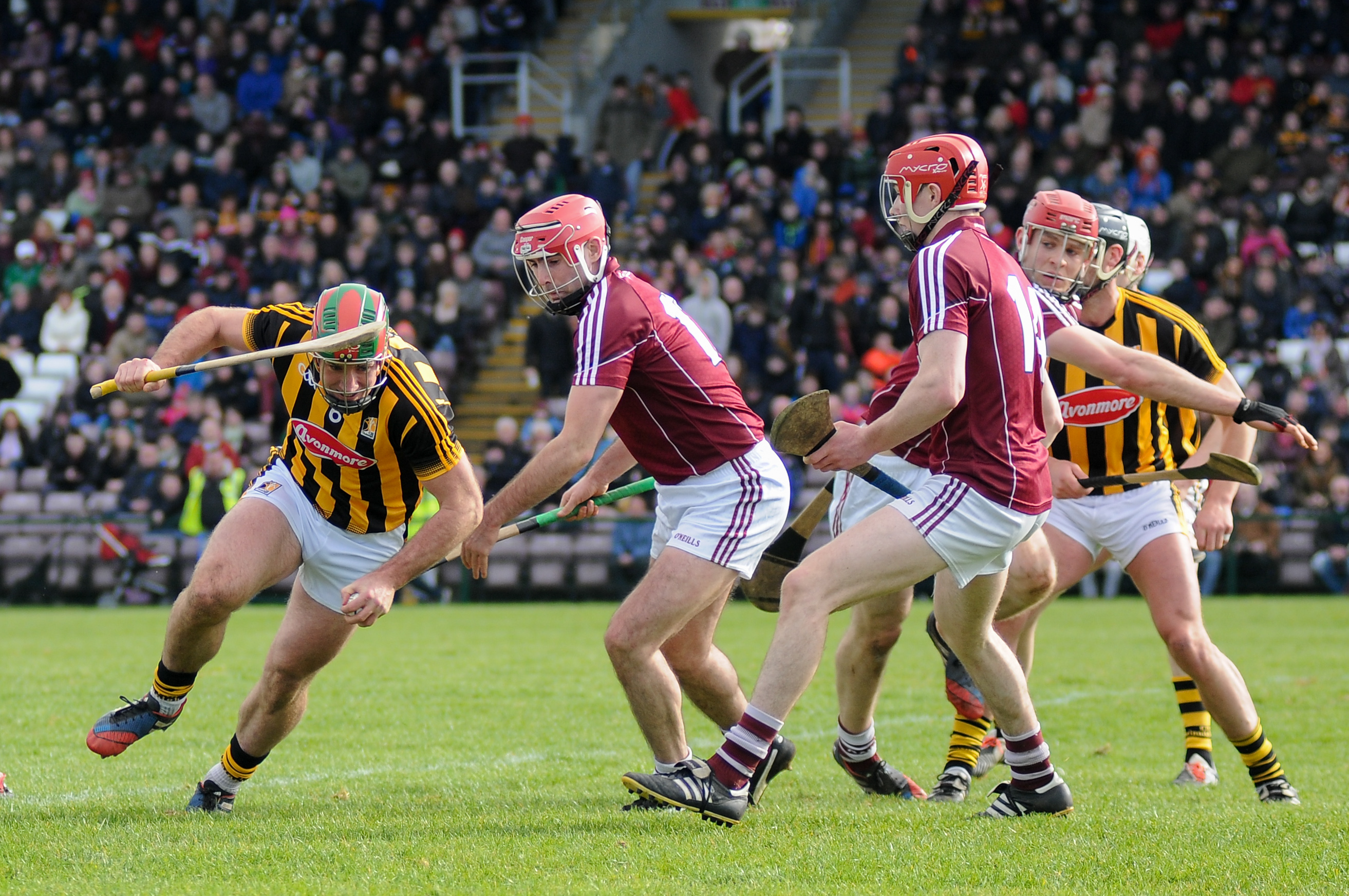 Kieran Joyce of Kilkenny and Galway's James Regan and Cathal Mannion in action in the 2015 National Hurling League at Pearse Stadium